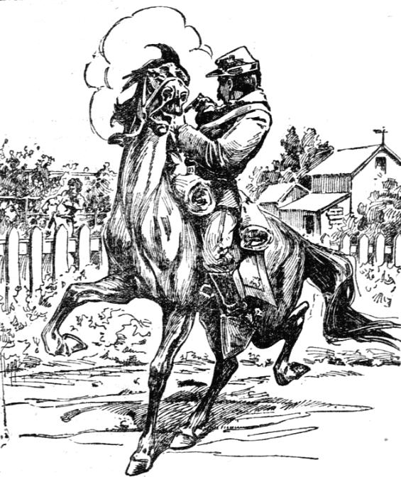 Artist's depiction of Sergeant James Campbell, a Union soldier, firing and killing Confederate general John Hunt Morgan in Greeneville, Tennessee, United States, during the U.S. Civil War in 1864.